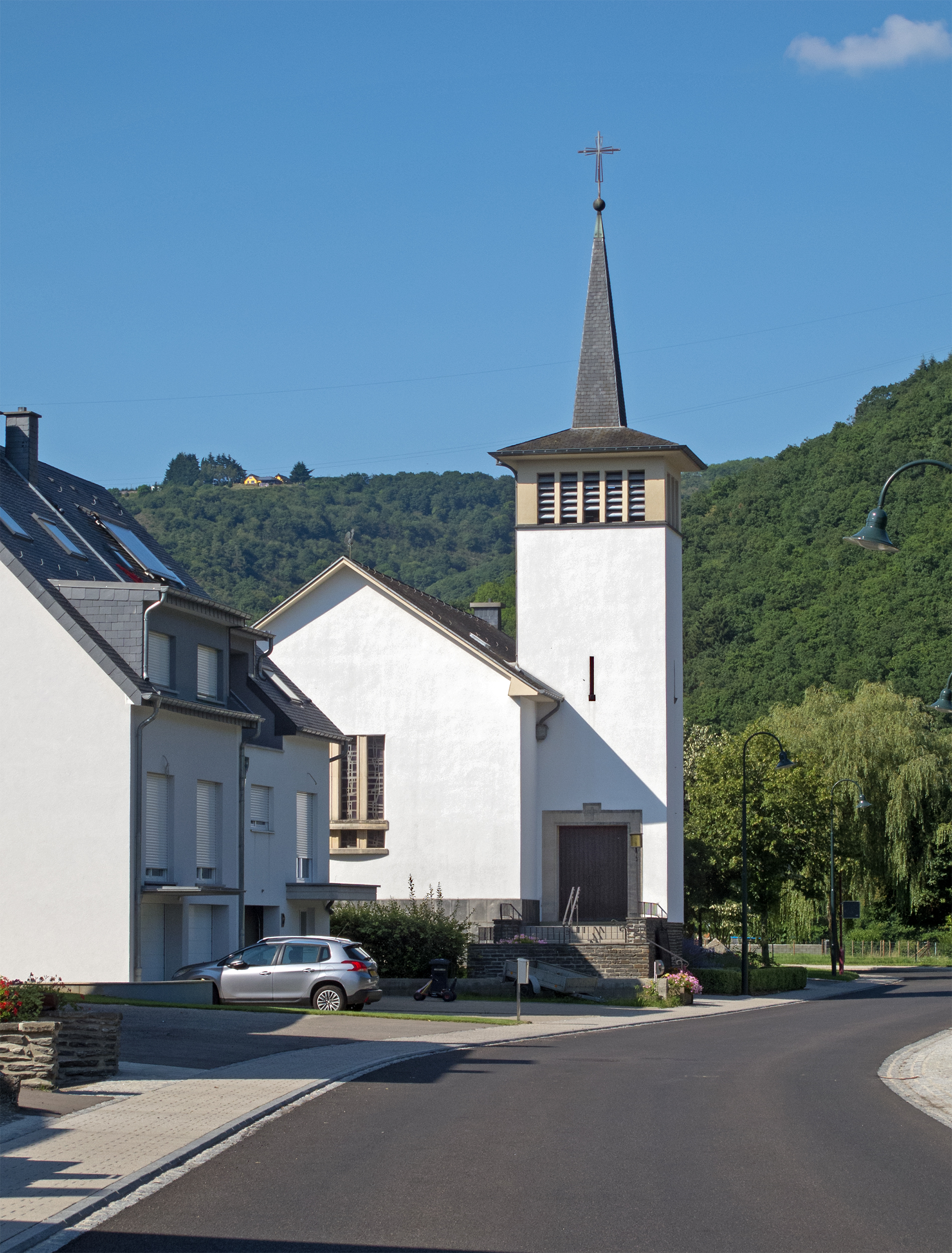 Church of Bivels